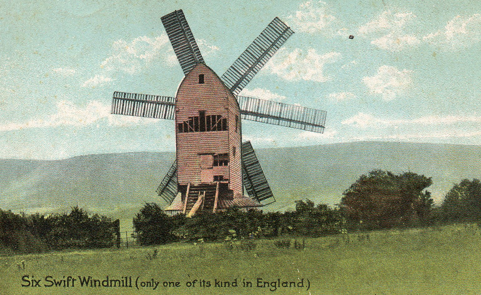 Ashcombe Mill, Kingston, Sussex from an old postcard. Mill blew down in 1916